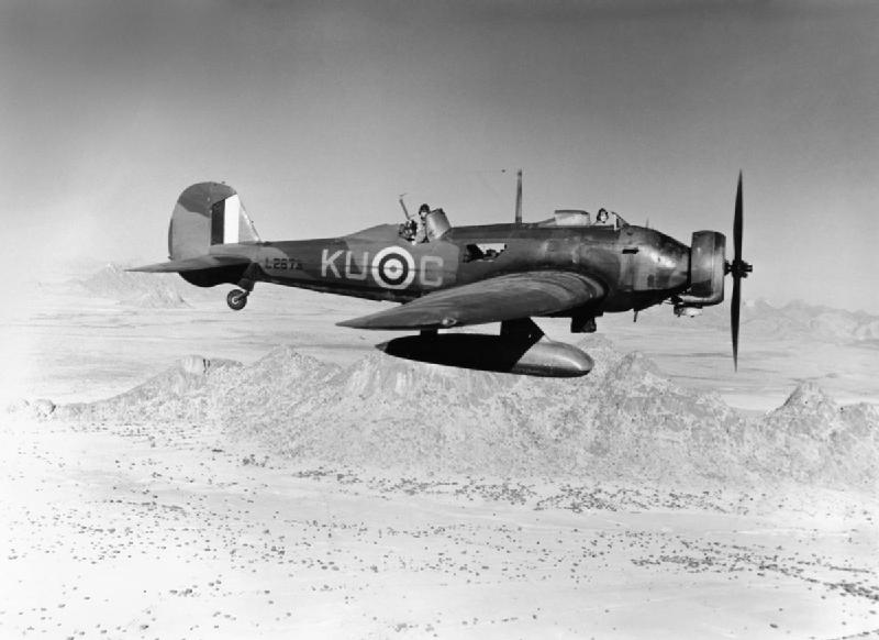 IWM caption : Wellesley Mark I, L2673 ‘KU-C’, of No. 47 Squadron RAF based at Agordat, Eritrea, in flight over the rugged landscape of Eritrea.